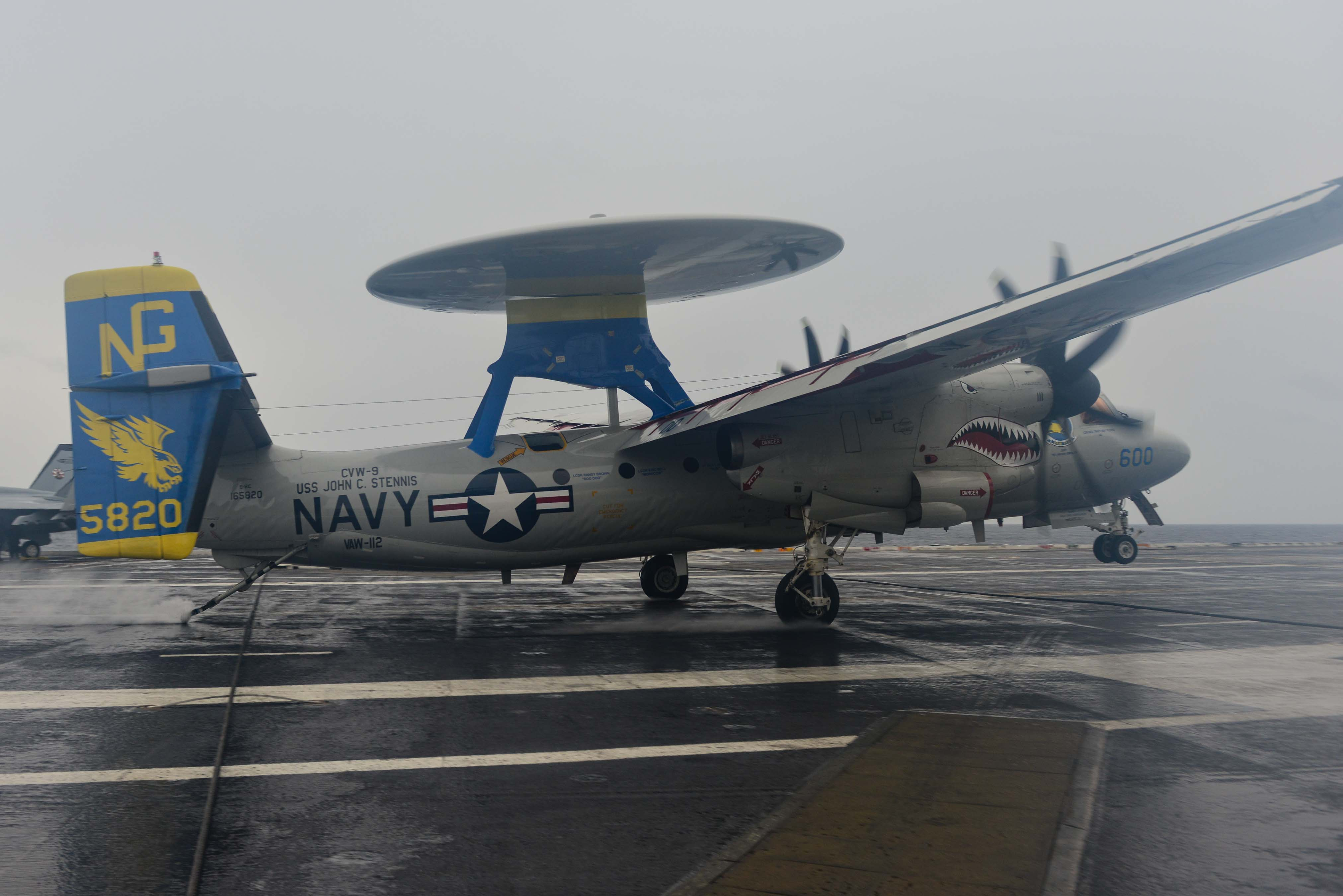 An U.S. Navy Grumman E-2C Hawkeye (BuNo 165820) from Airborne Early Warning Squadron (VAW) 112 "Golden Hawks" makes an arrested landing on the flight deck of the aircraft carrier USS John C. Stennis (CVN-74) in the Pacific Ocean. John C. Stennis and assigned Carrier Air Wing 9 (CVW-9) were undergoing an operational training period in preparation for future deployments.